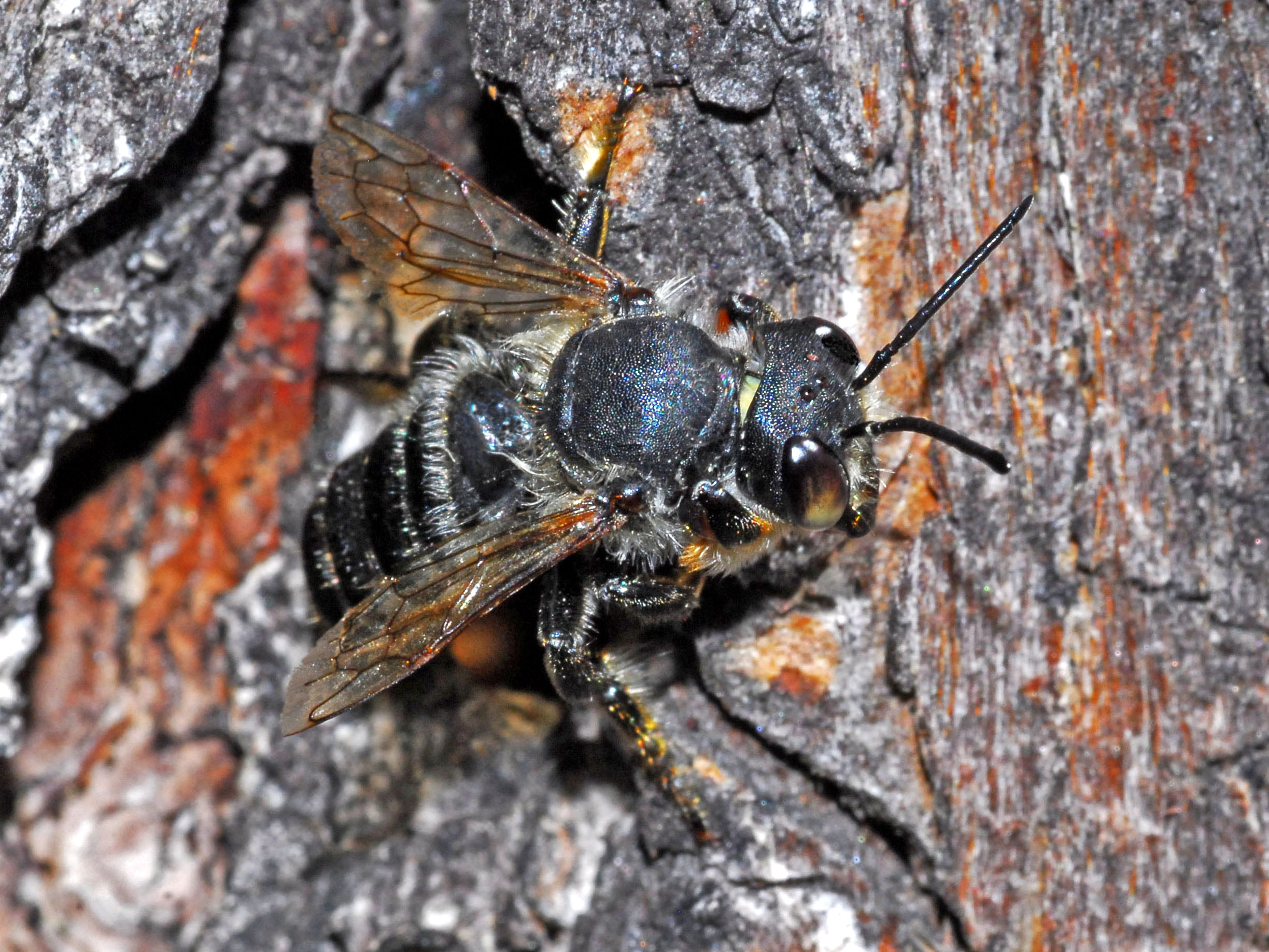 Megachile maritima. Male